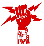 WIRED magazine's anti Clipper "Cyber Rights NOW" graphic